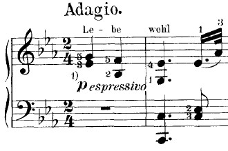 The first two bars of the Sonata opus 81a ("Das Lebewohl") by Beethoven